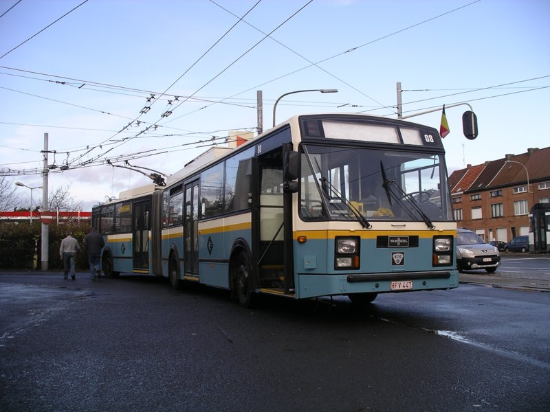 Trolleybus Van Hool AG 280T (vehicle 7408), picture taken in Gentbrugge depot